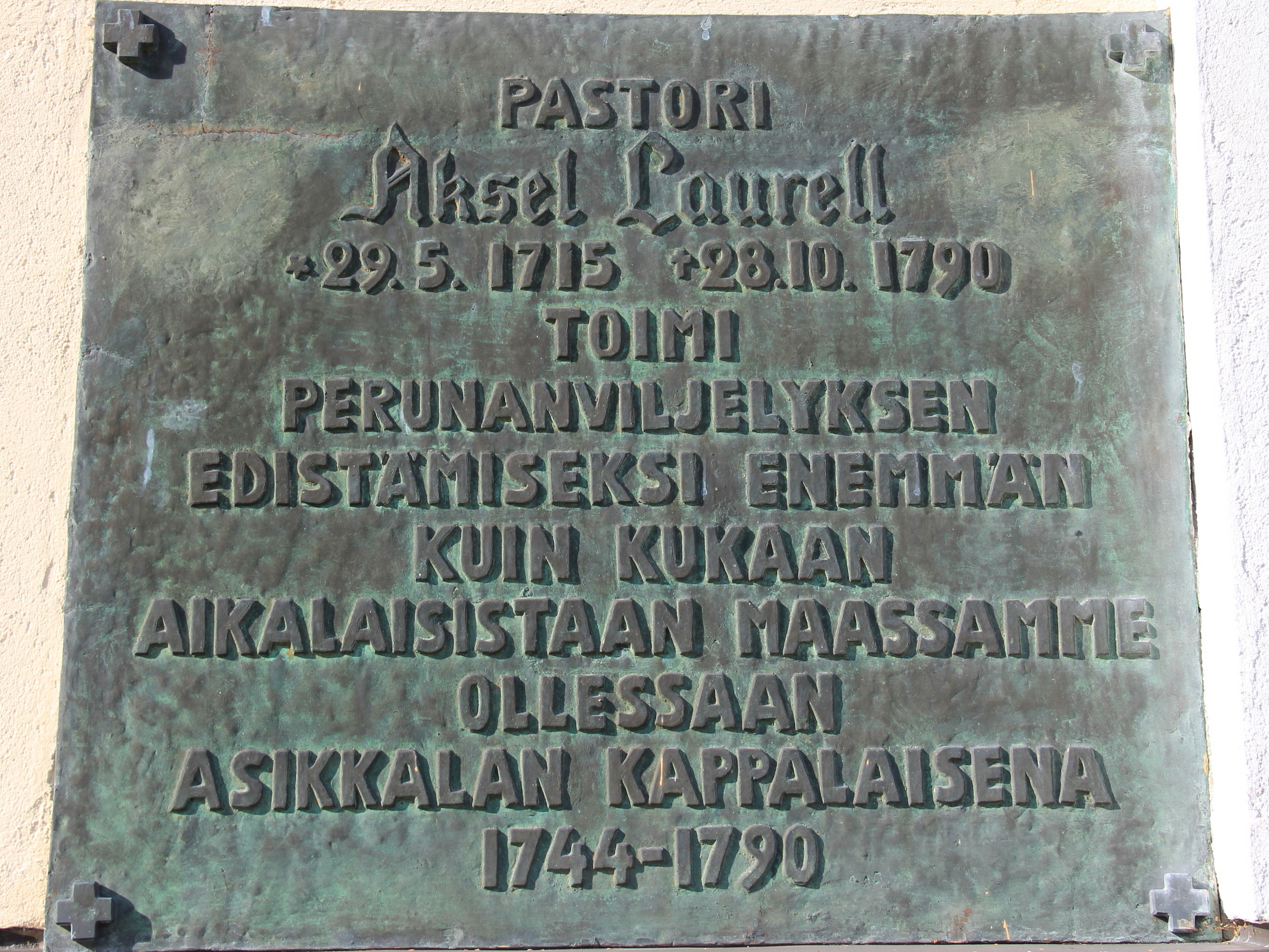 Axel Laurell memorial plaque, Asikkala cemetery chapel, Asikkala, Finland.